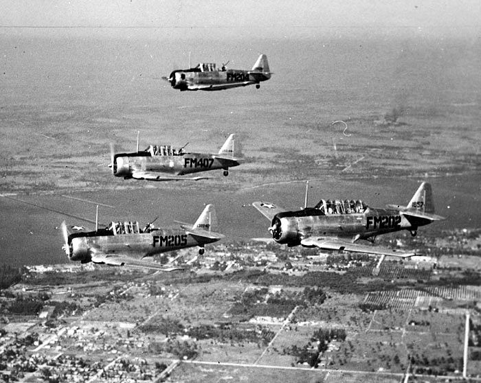 U.S. Army Air Force North American AT-6C-NT Texan trainers flying in formation along the Caloosahatchee River above east Fort Myers, Florida (USA), to the Buckingham Flexible Gunnery School's range over the Gulf of Mexico, 1942. Plane "FM 202" carries the tow target at which the gunners would shoot from the rear seat of the planes (second aircraft is s/n 41-32240).